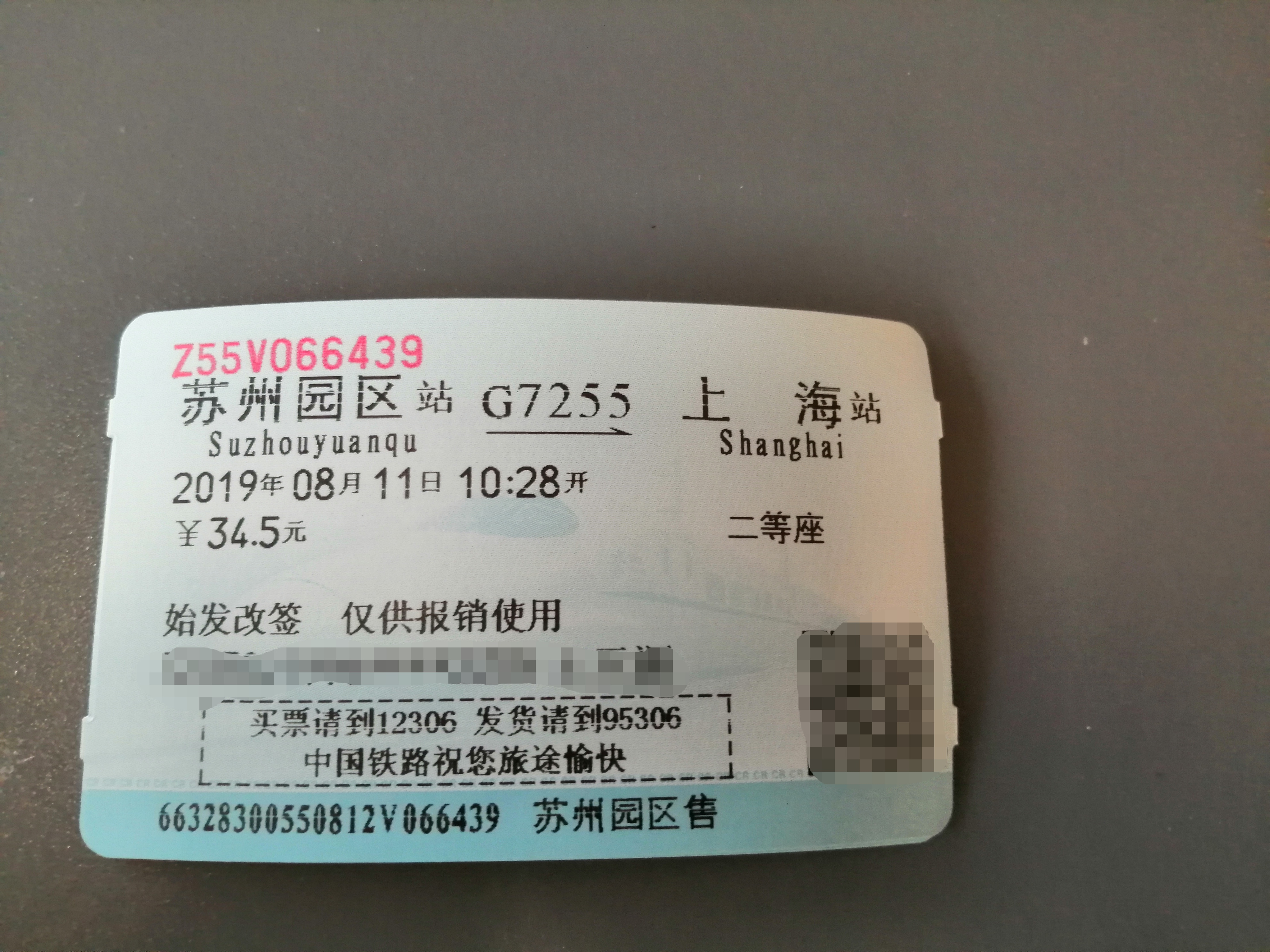 G7255 ticket, which departed from Suzhou Industrial Park to Shanghai. The ticket writes "For reimbursement only", and there is no seat number printed on the ticket. 中文（中国大陆）: G7255（苏州园区至上海）的车票，注明“仅供报销使用”，且未打印座位号。